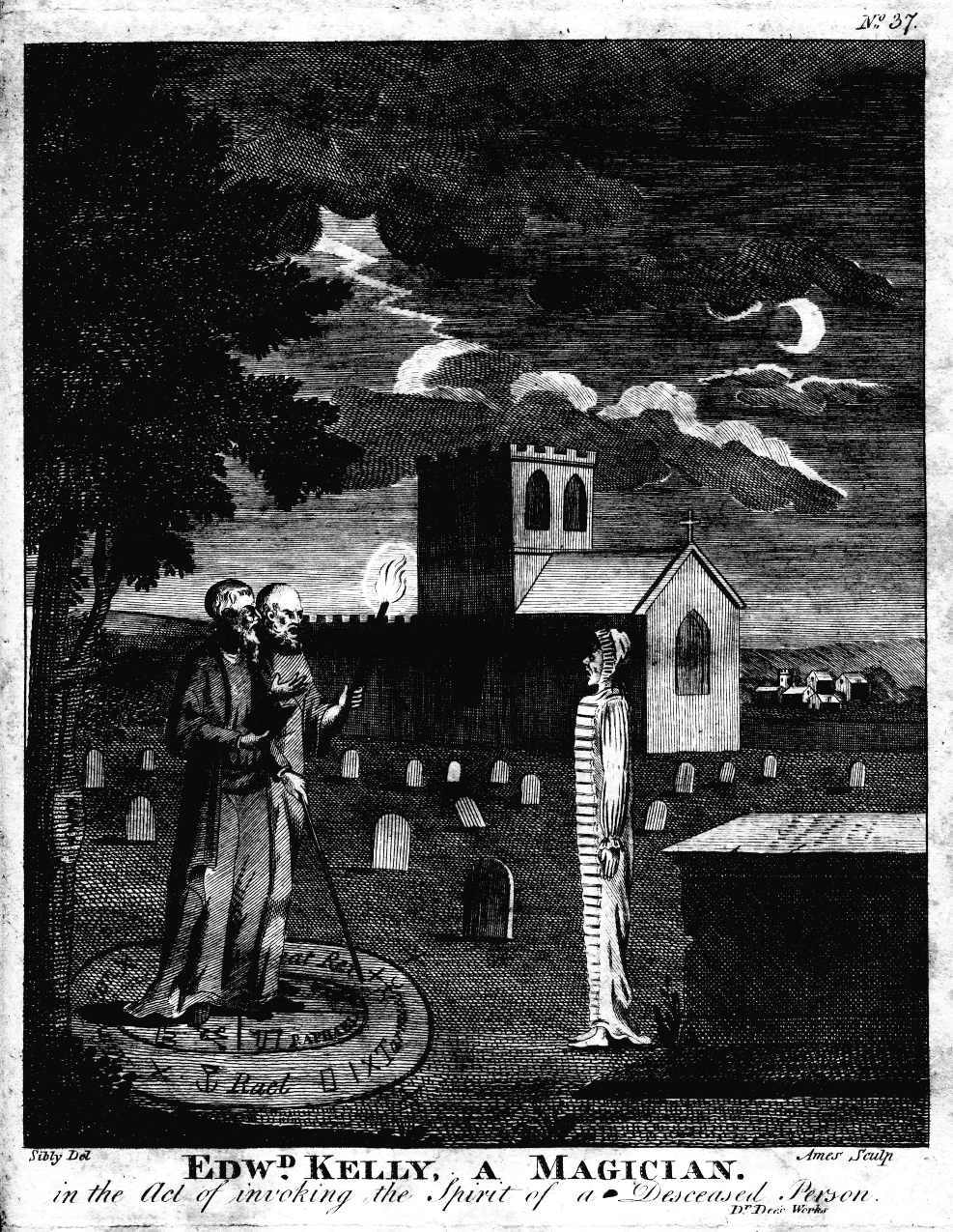 "Edw[ar]d Kelly, a Magician. in the Act of invoking the Spirit of a Deceased Person."